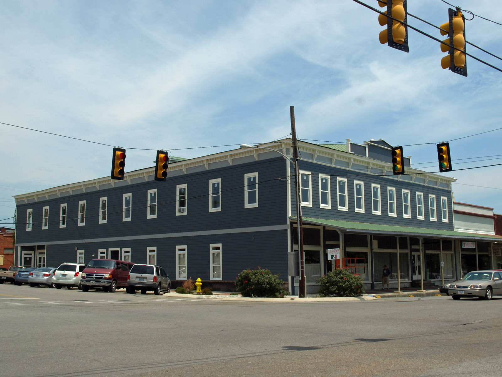 Stiefelmeyer's in Cullman, Alabama, listed on the National Register of Historic Places